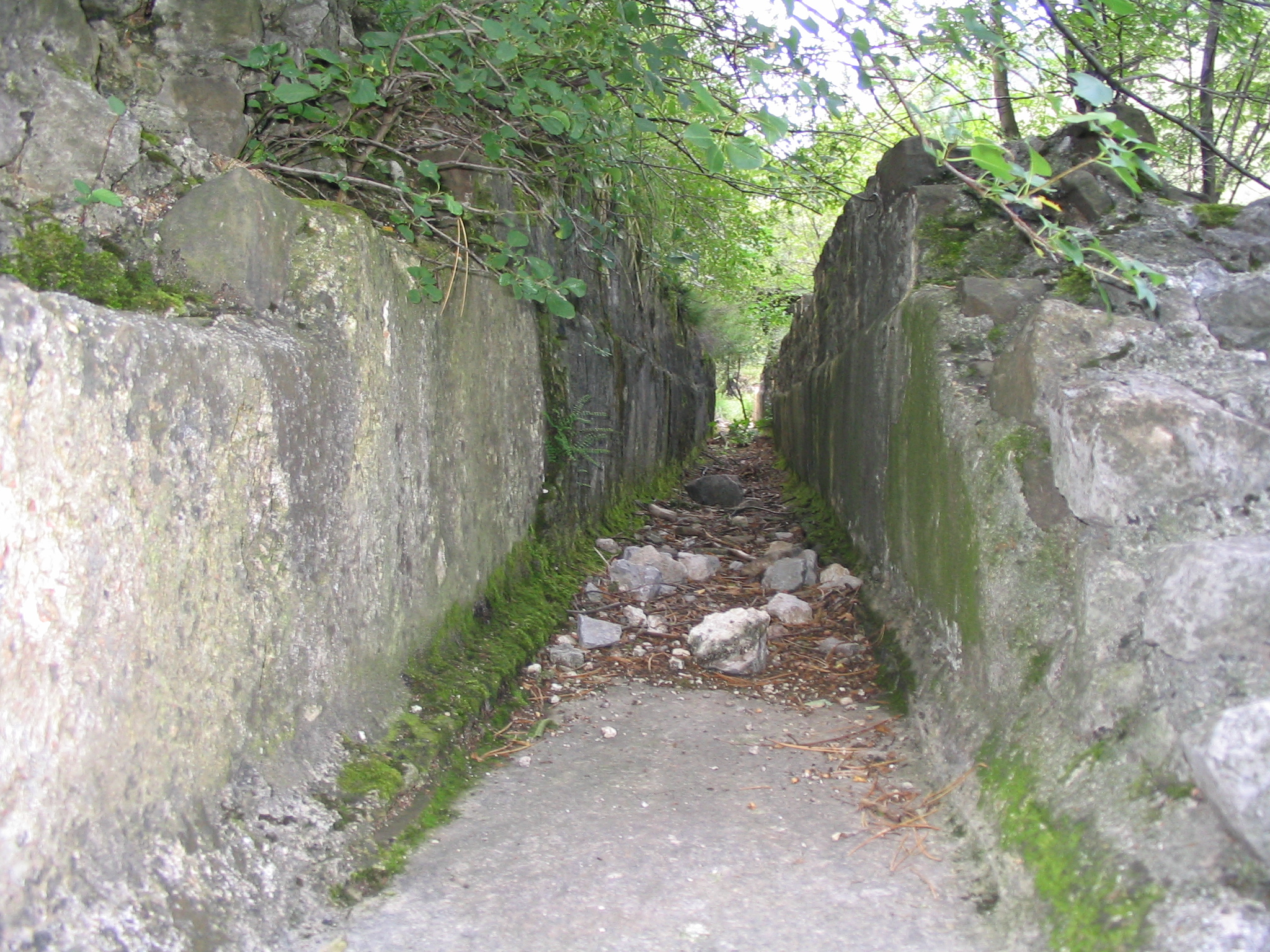 Remains of Ancient Roman waterworks in the Rosandra River Valley near Trieste. Photo taken by User:IzTrsta in July 2005 with a digital camera.